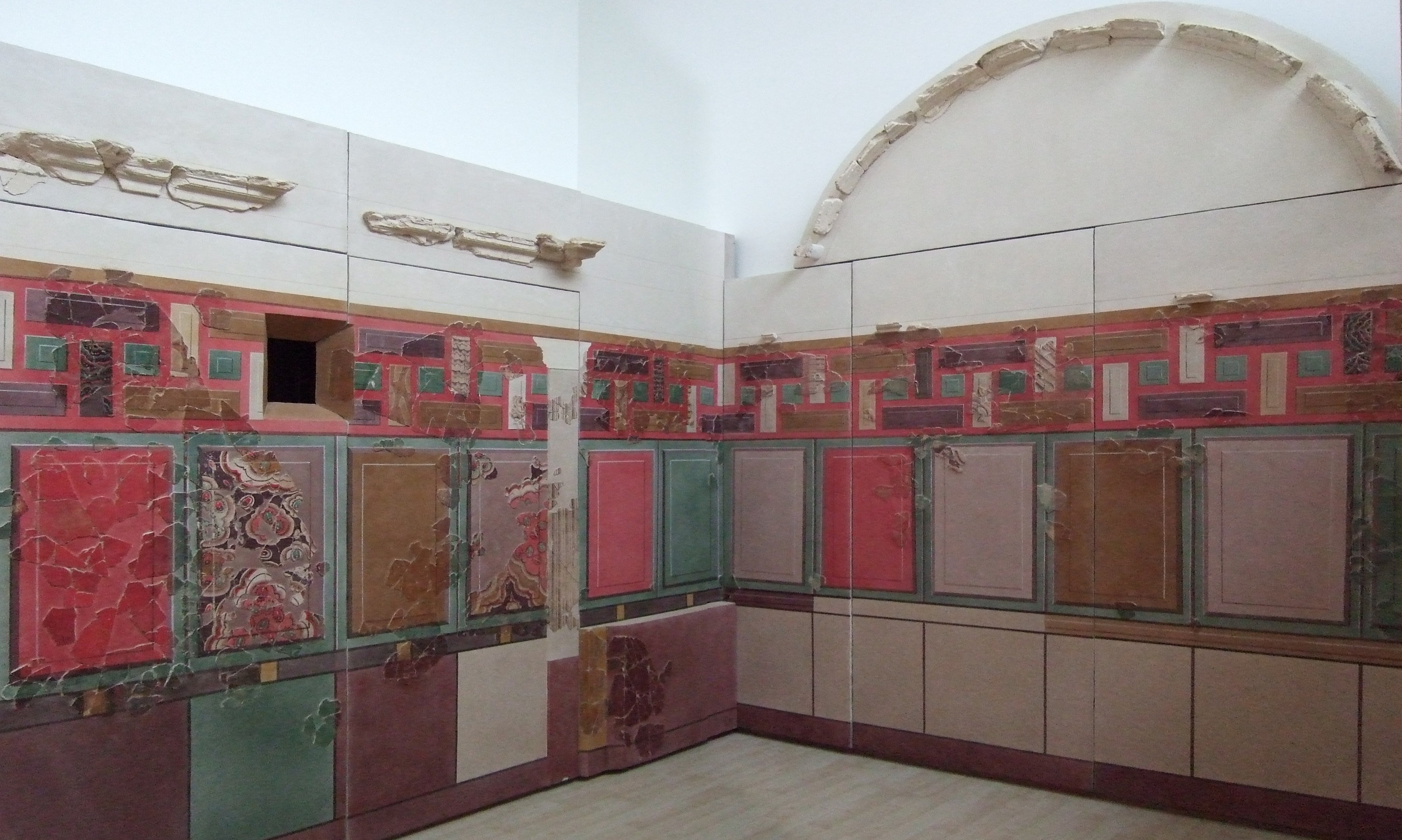 Calatayud Museum - Roman cubiculum 50 b.C. - From Bilbilis, Insula I, Domus 2